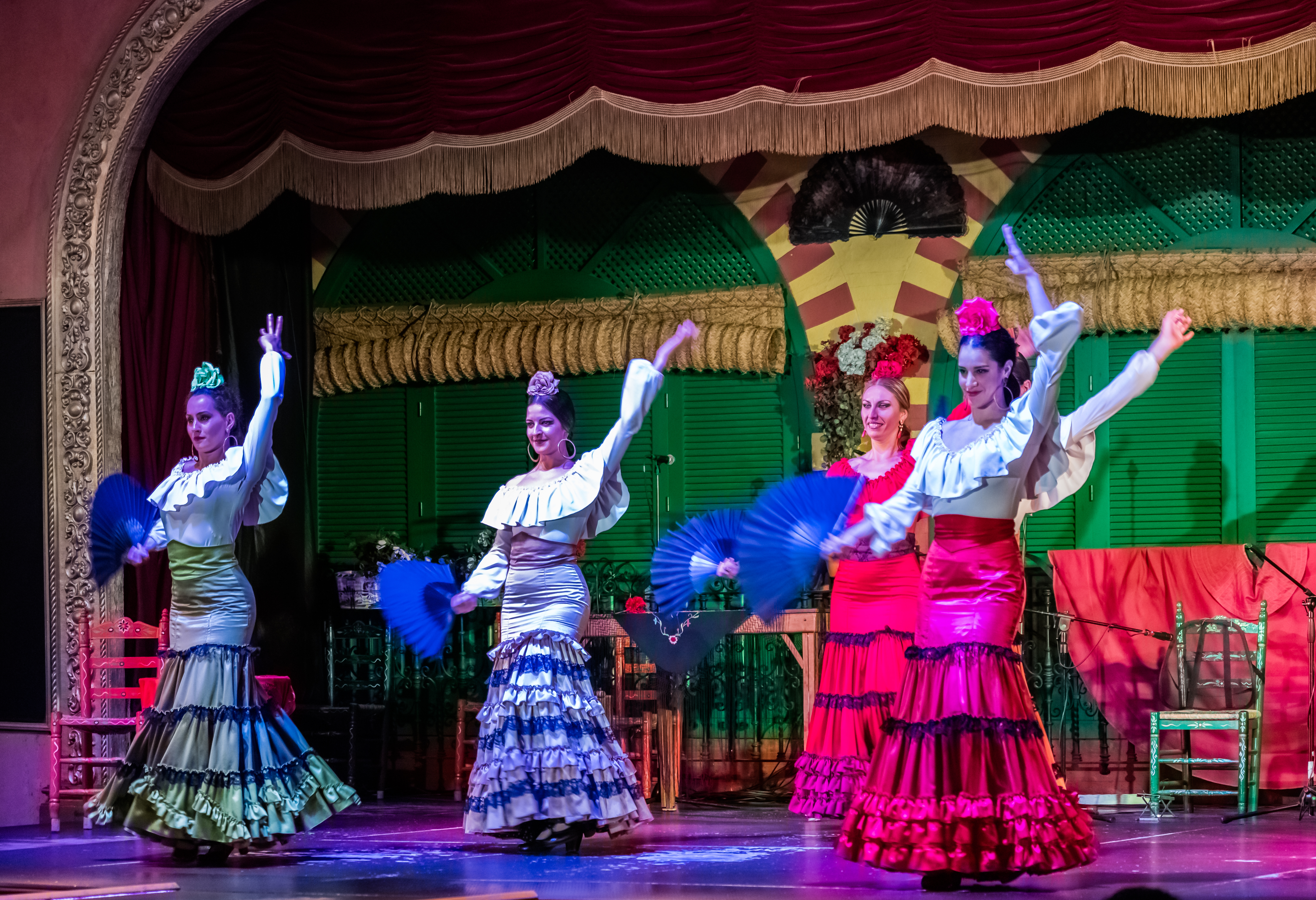 Flamenco performance in Palacio Andaluz, Sevilla, Spain